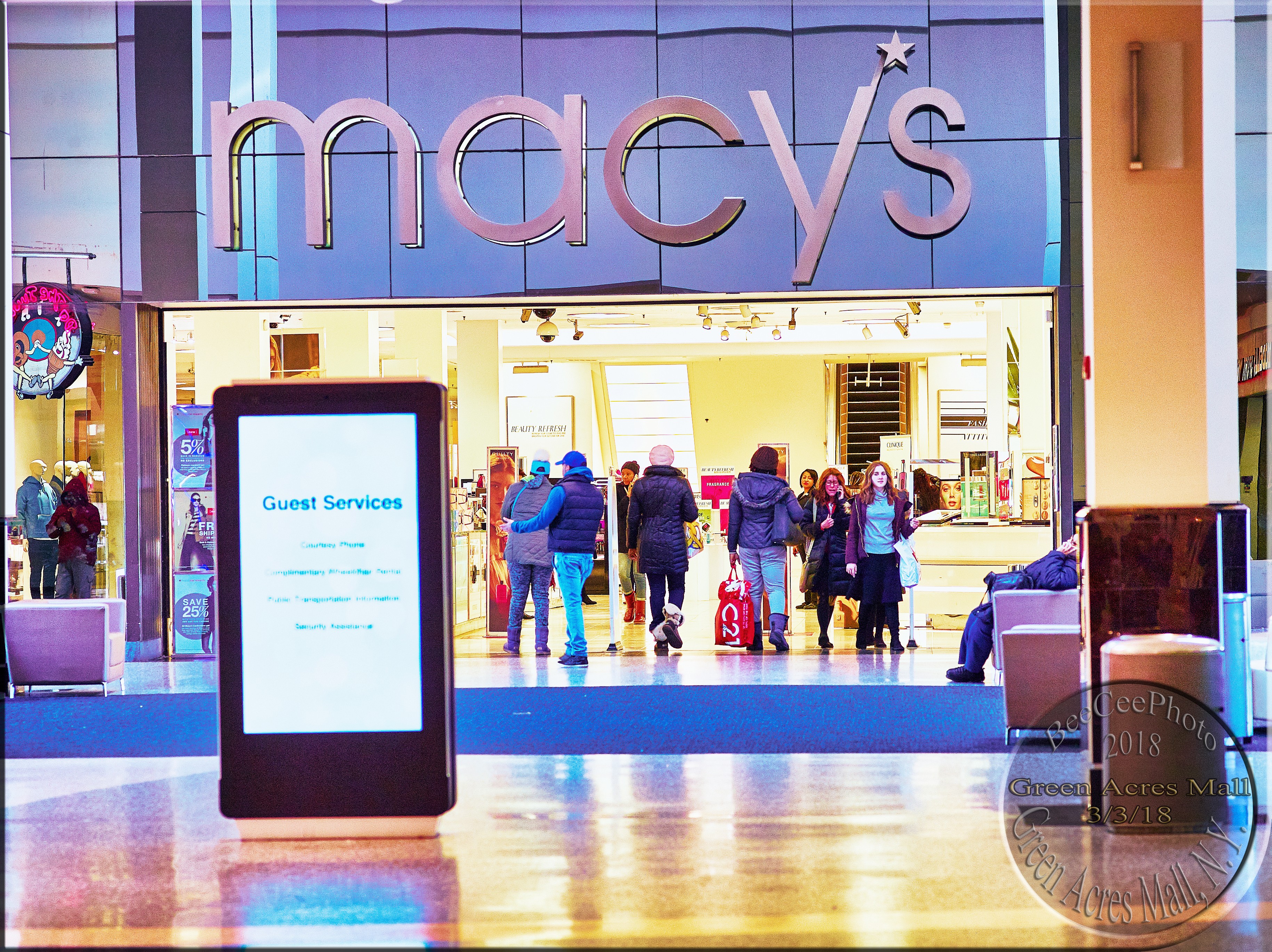 Mall entrance to Macys, Green Acres Mall, Valley Stream NY